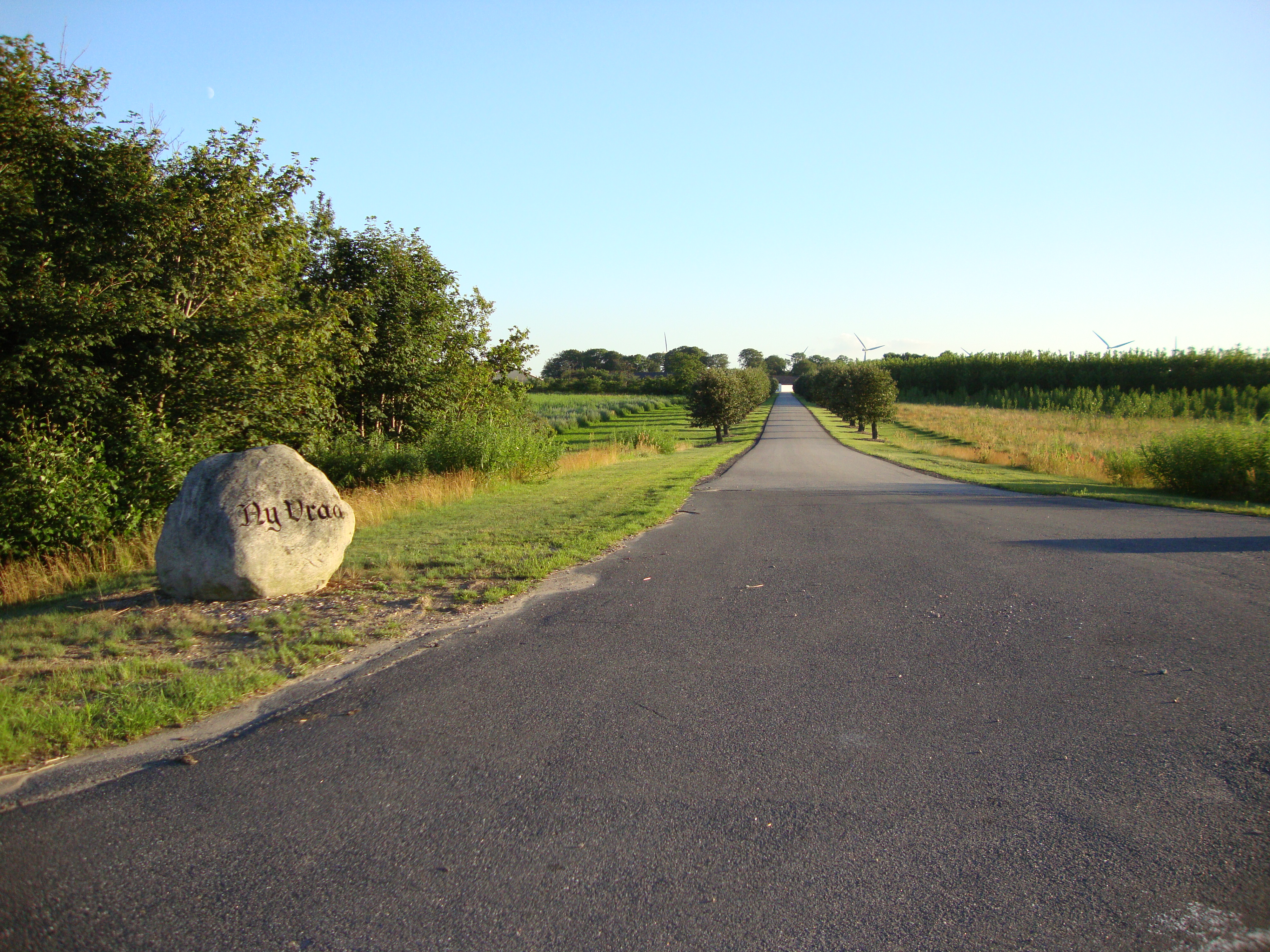 The entrance to Ny Vraa in Tylstrup, Nordjylland, Denmark.